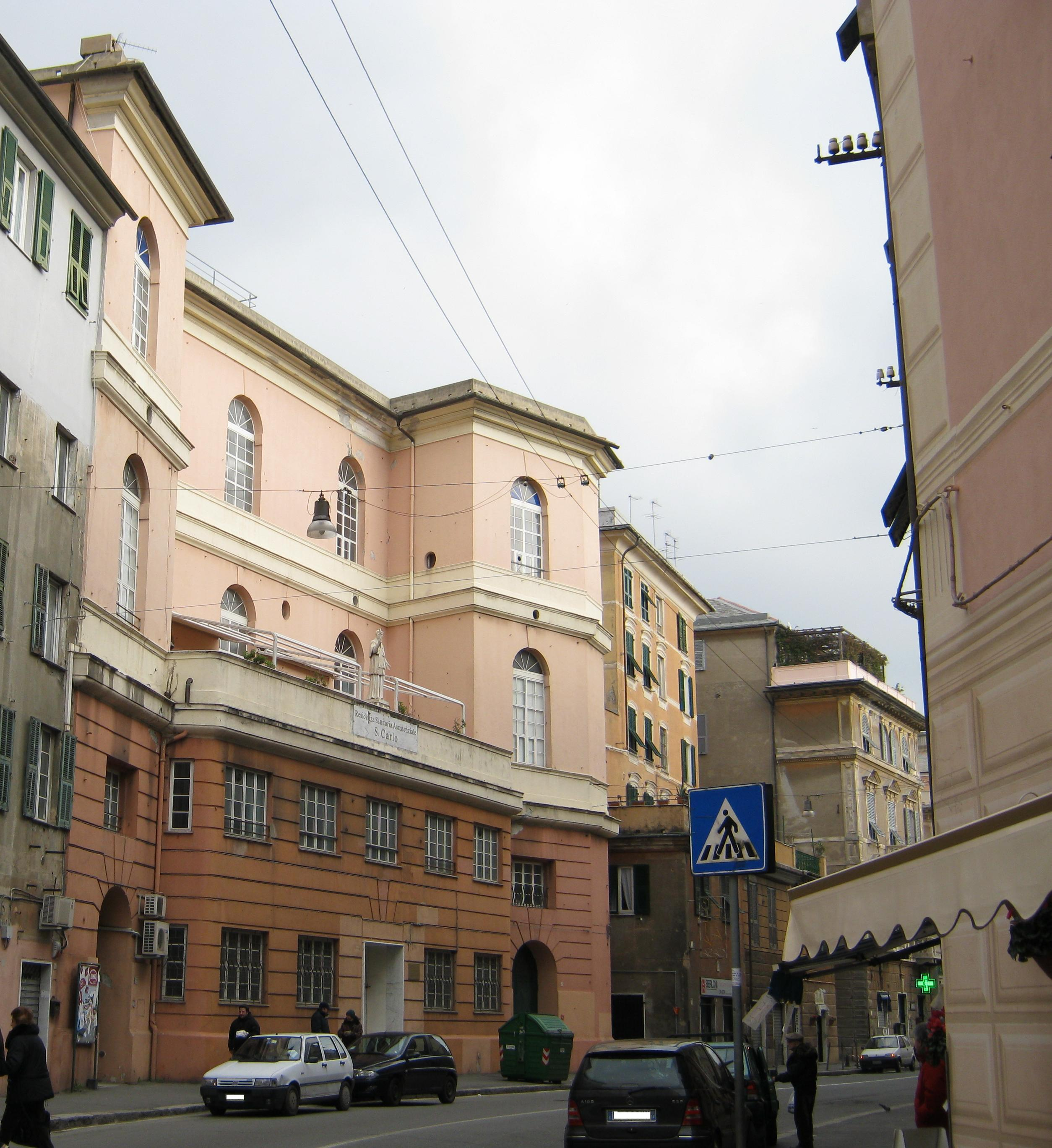 Former hospital ("san Carlo") of Voltri.